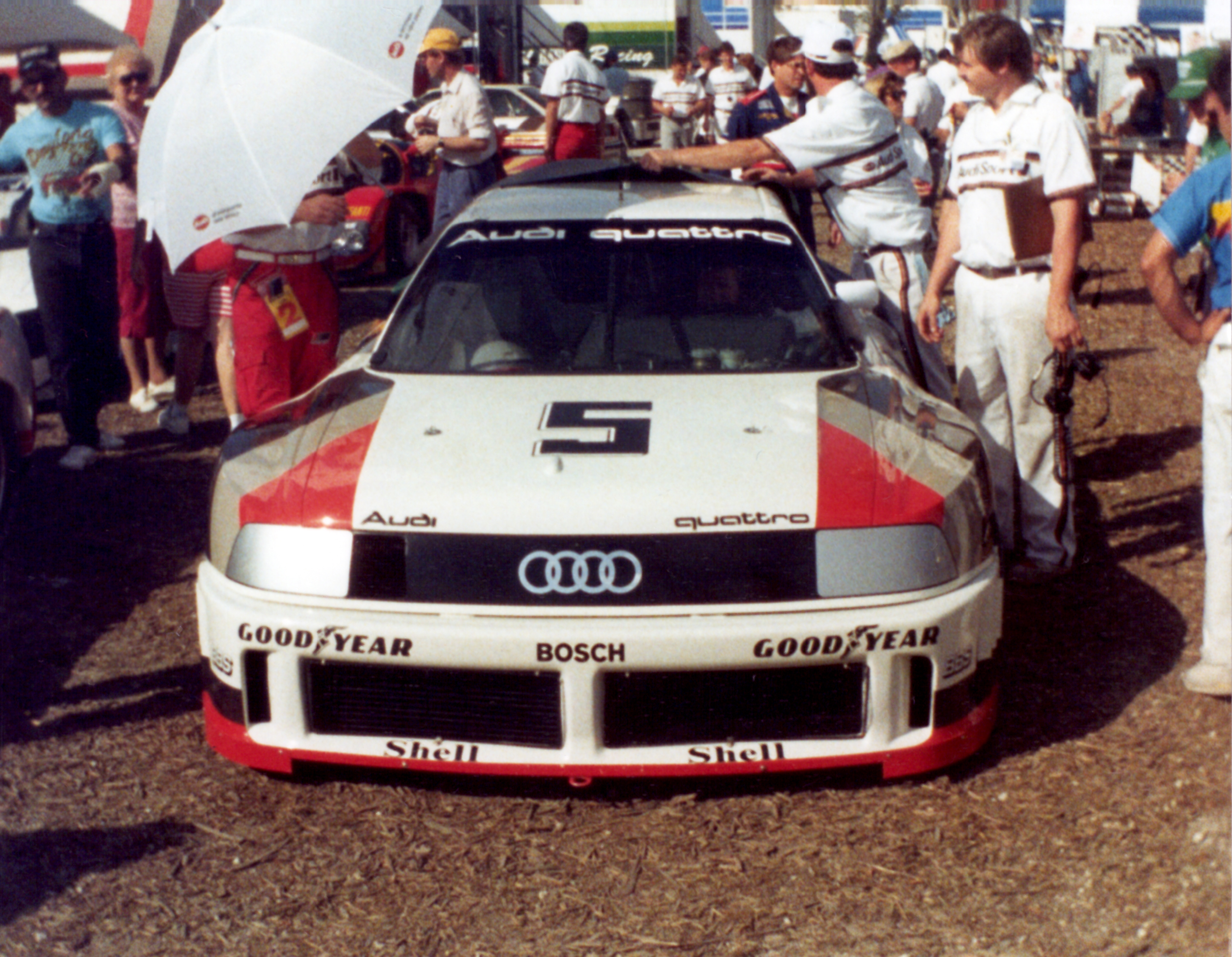 The Audi 90 Quattro IMSA GTO car, driven by Hurley Haywood, in the paddock before the start of the 1989 Miami IMSA GT race.